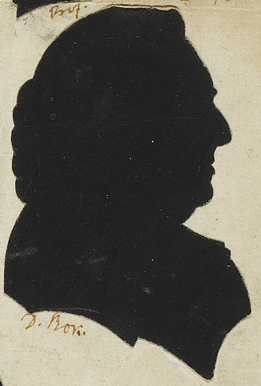 Friedrich Samuel Bock (1716–1785) was a German Protestant theologian, historian, librarian and writer.